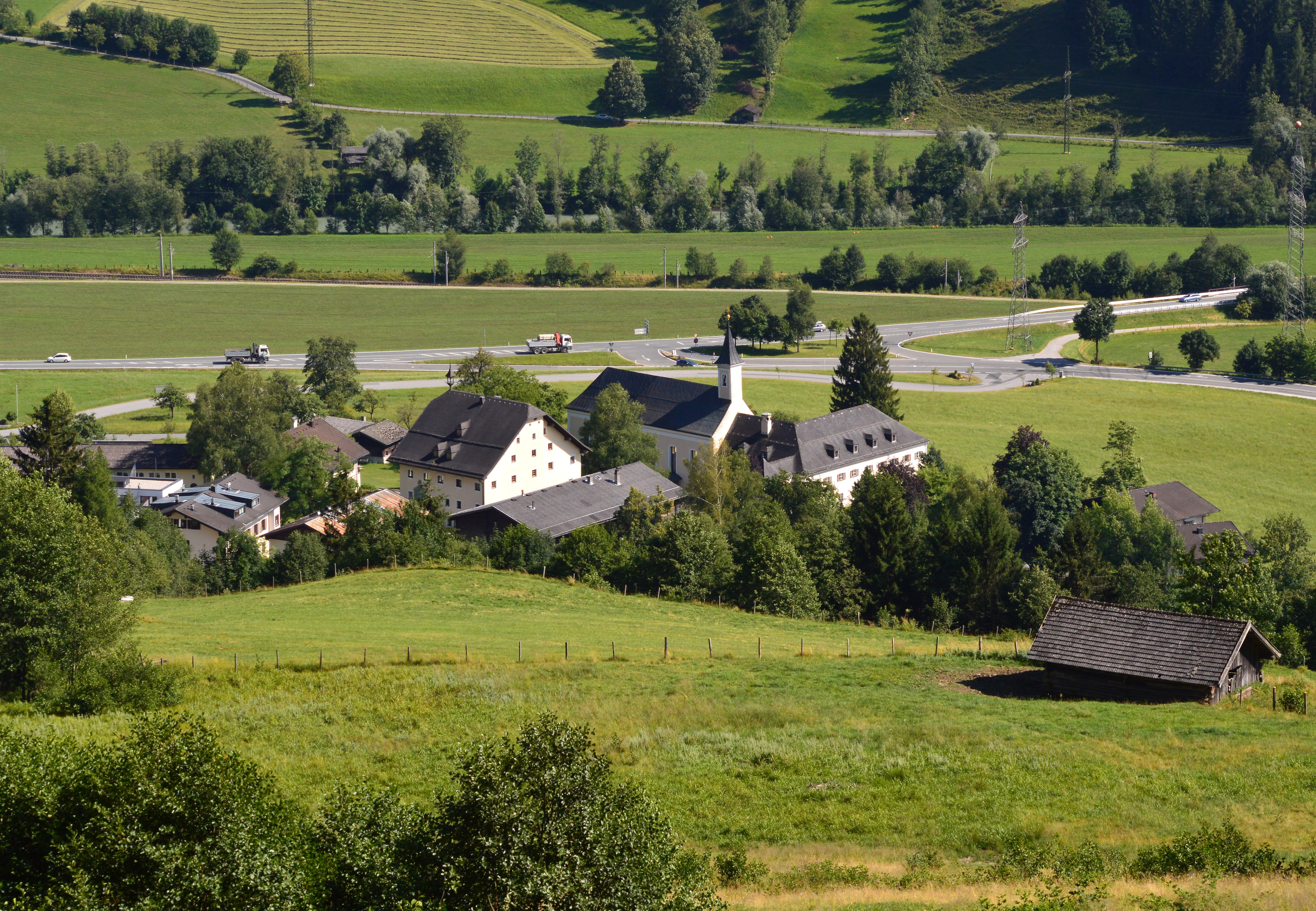 General view of Caritas-Kinderdorf St. Anton, Bruck an der Großglocknerstraße, Salzburg (state), Austria. View from north of the Caritas-Kinderdorf.